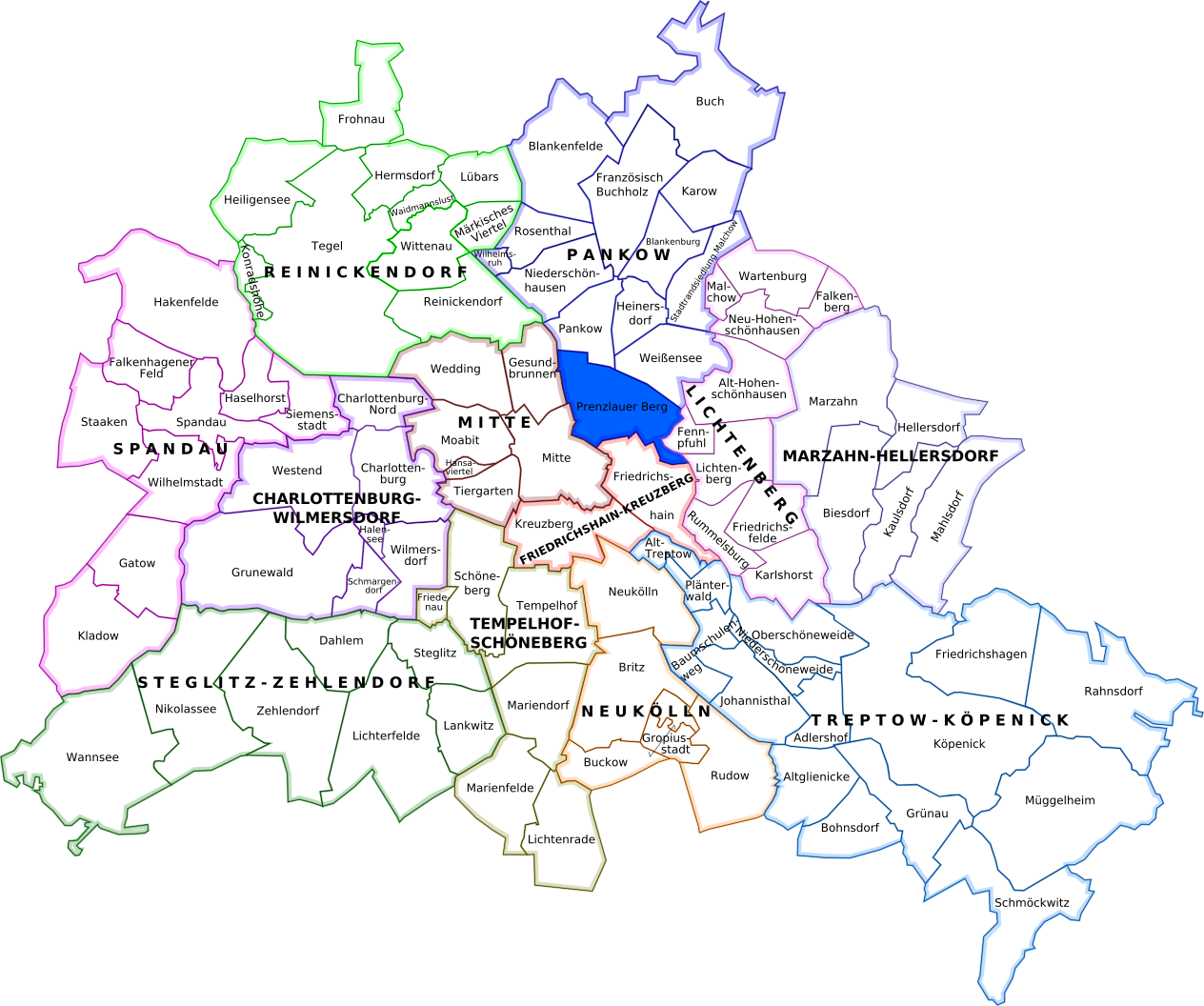 A map of the location of Prenzlauer Berg in Berlin